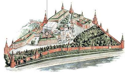 Overview map of the Moscow Kremlin. Location of The Terem Palace marked.